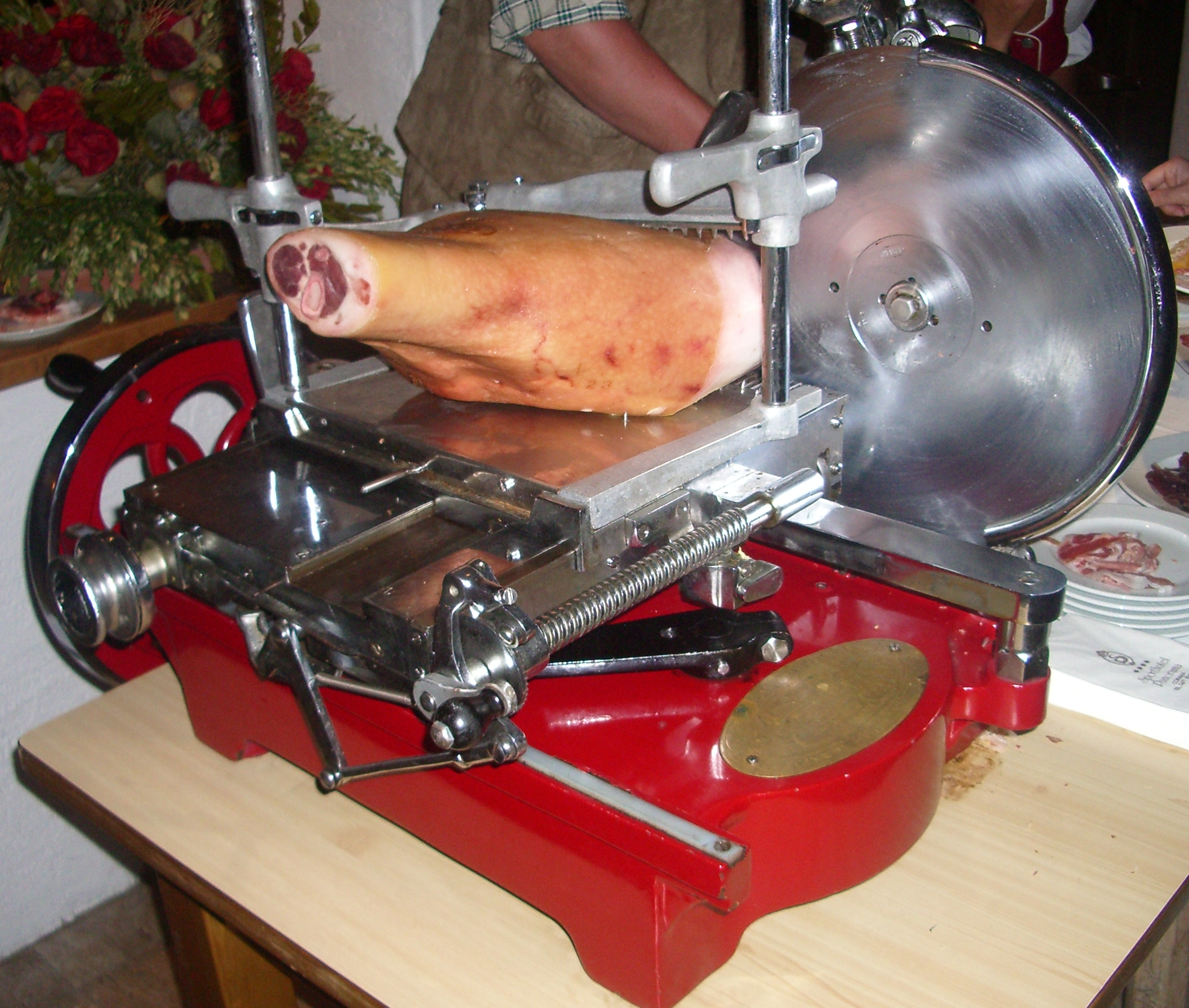 Antique hand-crank meat slicer, cropped from original.